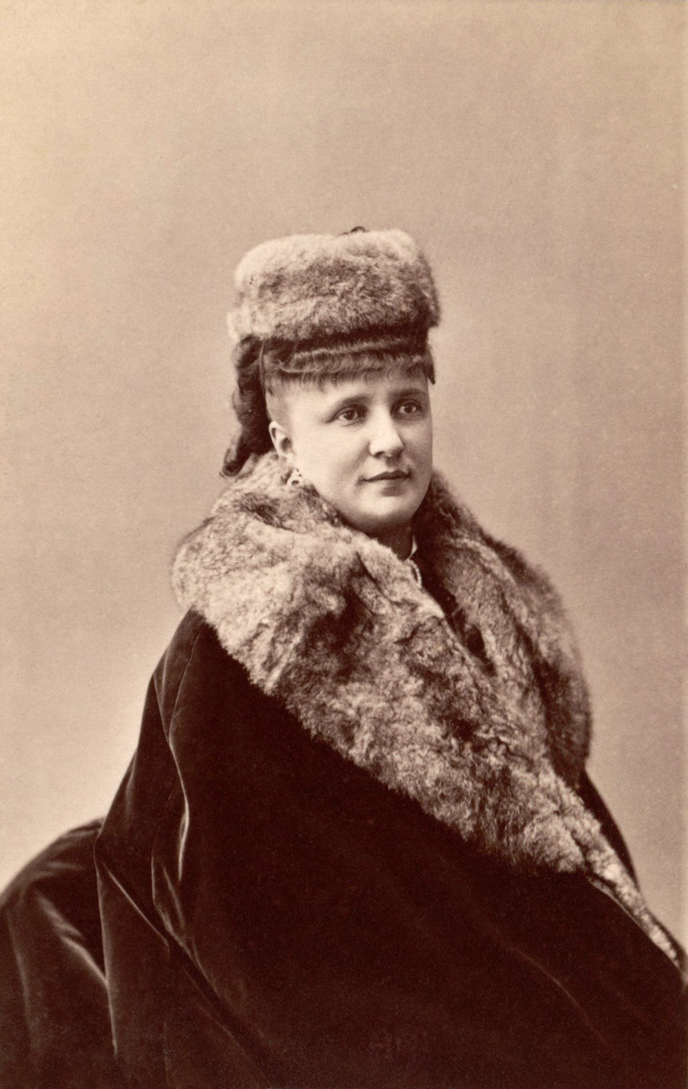 Anna Dartaux, French operetta singer